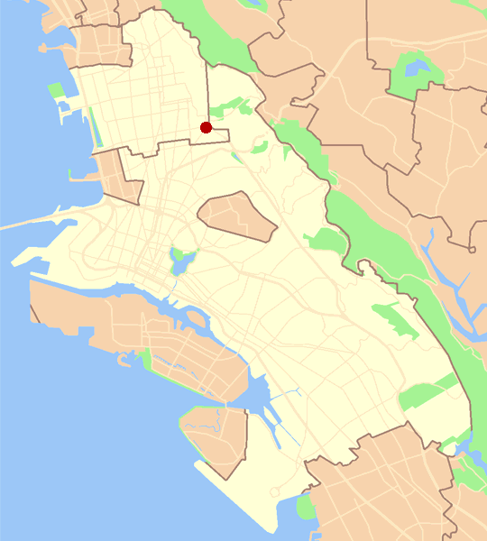 Map showing the location of Claremont in the cities of Berkeley and Oakland, California. Created by User:Nogood using U.S. Census Bureau data.